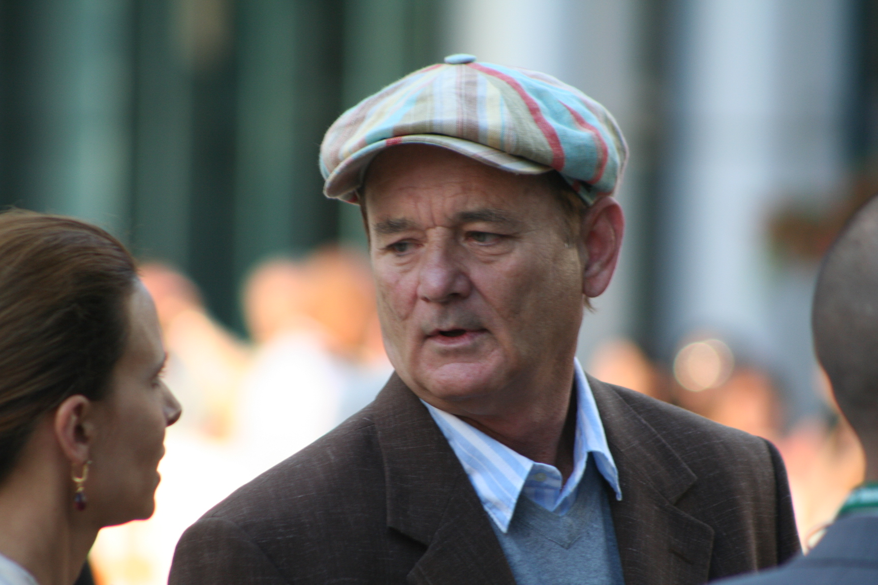 Stars turn out for the movie Get Low at TIFF 2009